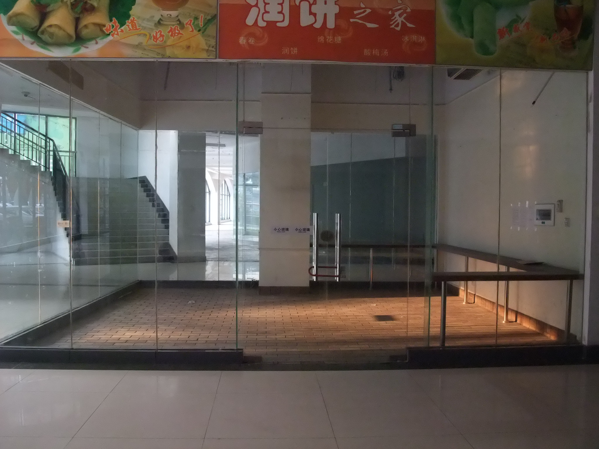 Empty shop view in South China Mall, Dongguan, Guangdong China